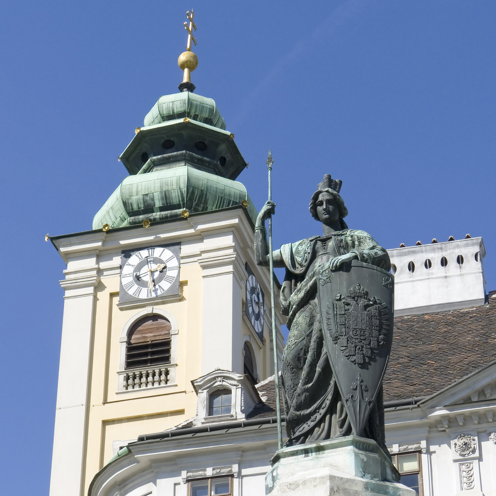 Fountain Austriabrunnen in Vienna 1